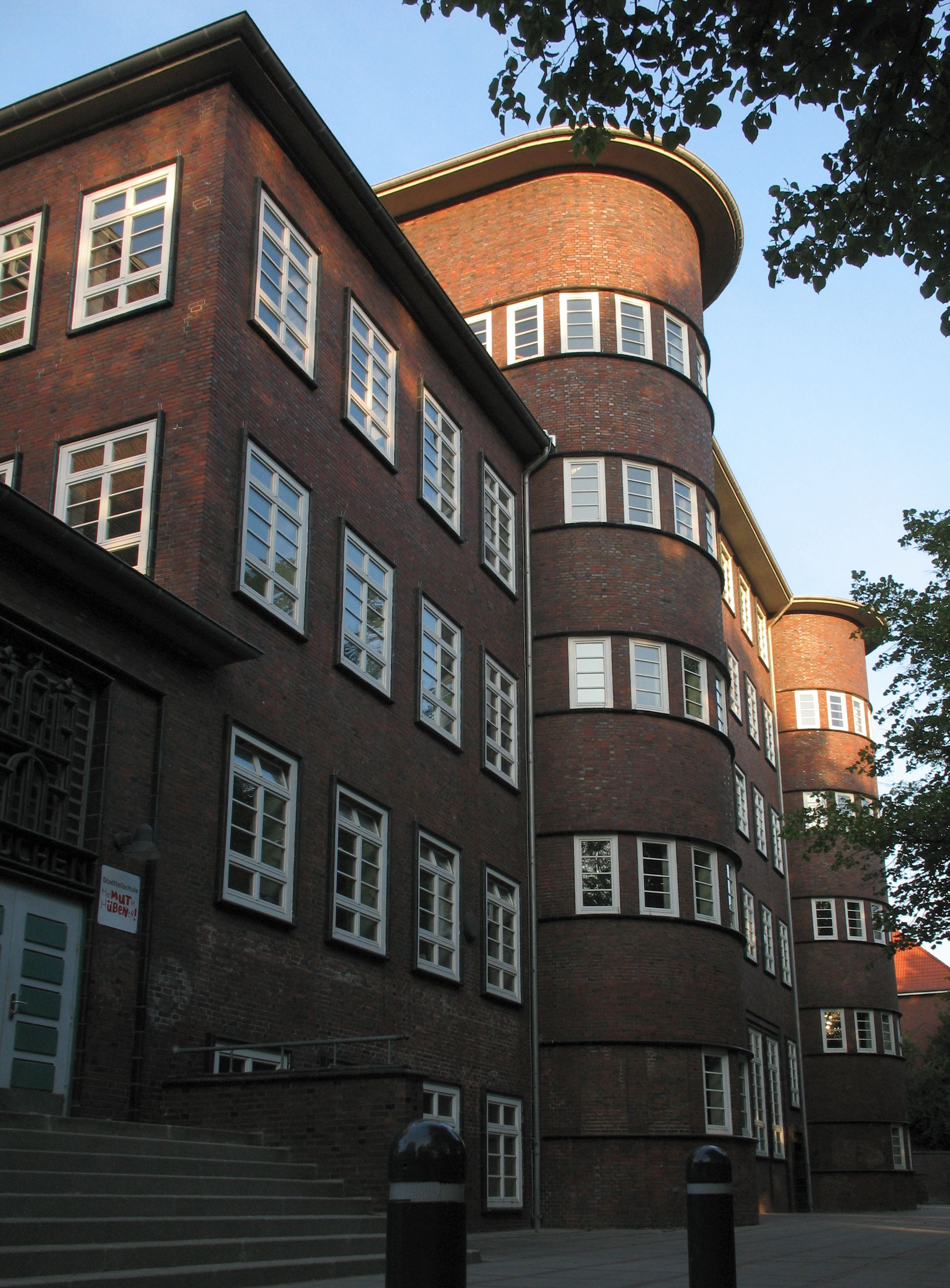 School building in Hamburg-Nord, Germany